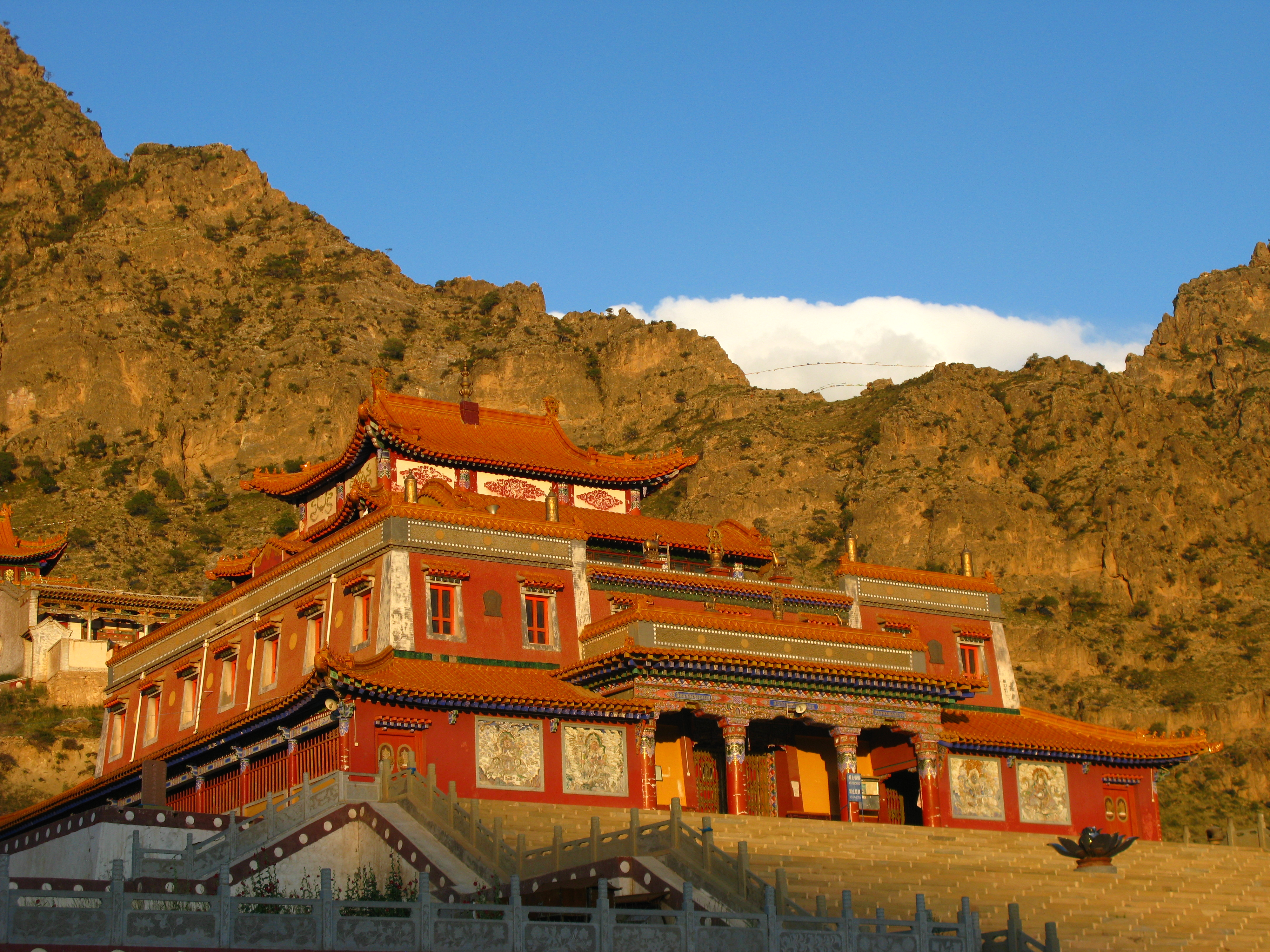 Glowing temple. Actually this is Guangzong Temple, a Tibetan Buddhist temple in Alxa Left Banner, Alxa League, Inner Mongolia, China.